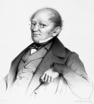 French composer, violinist and conductor François-Antoine Habeneck (1781-1849)